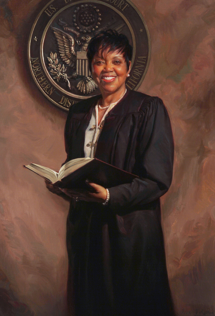 Judge Saundra Brown Armstrong official portrait art by Scott Johnston, oil on linen, 38x27-inches, collection of the United States District Court of Northern California, Oakland